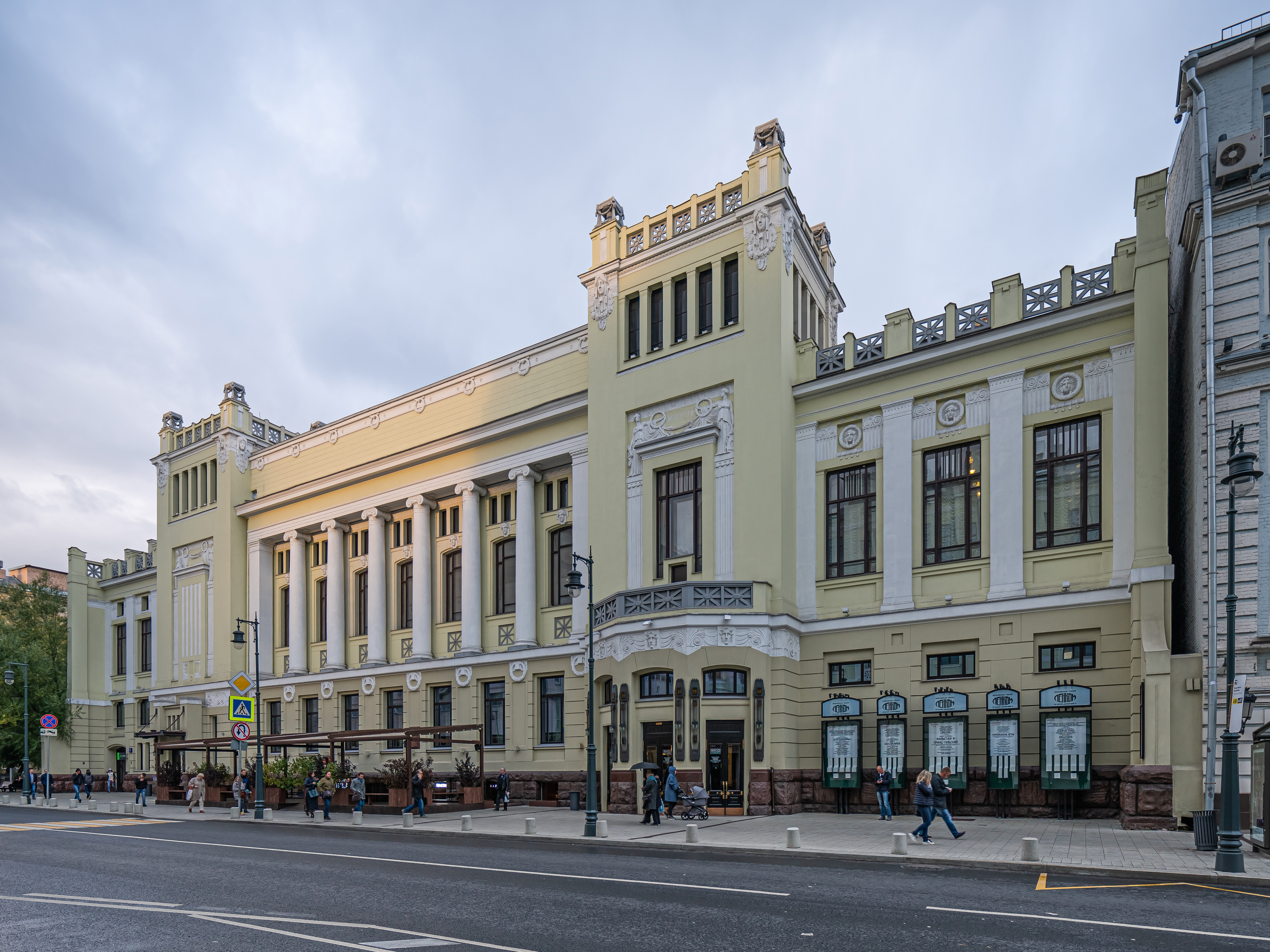 Lenkom Theater in Moscow, Russia